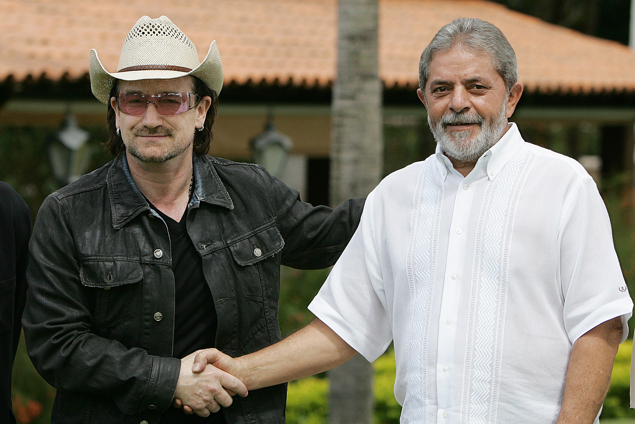 Brazilian president Luiz Inácio Lula da Silva shakes hands with U2's leader Bono in Brasília.